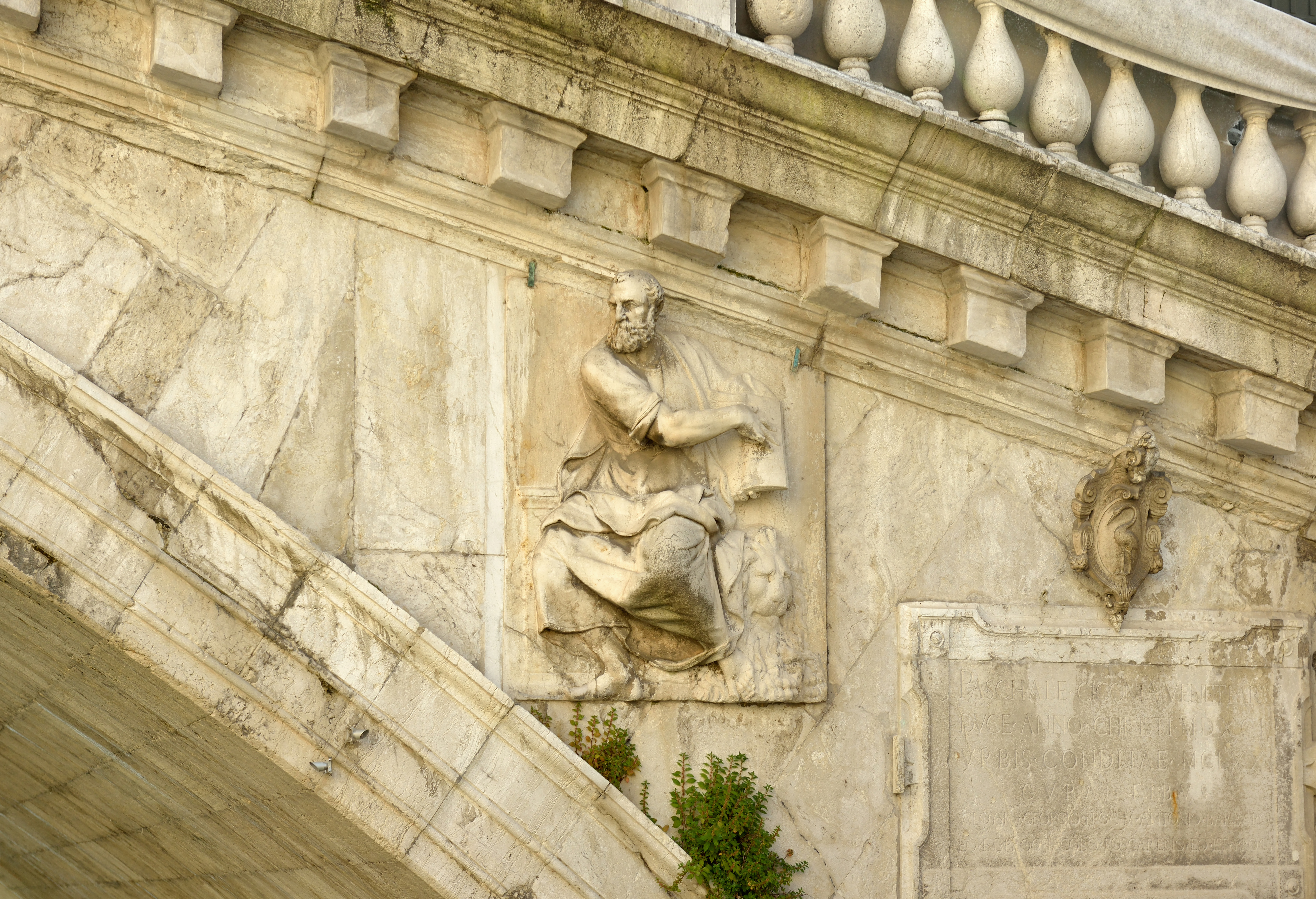 Relief of St. Mark on the Rialto Bridge on the Canal Grande in Venice.